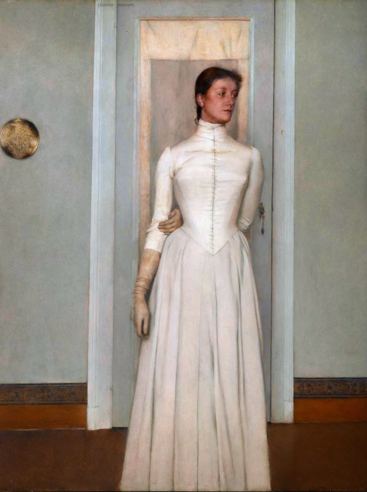 Portrait of the artist's sister